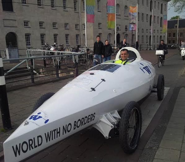 The Ocean Biker, Ebrahim Hemmatnia in his Boatbike